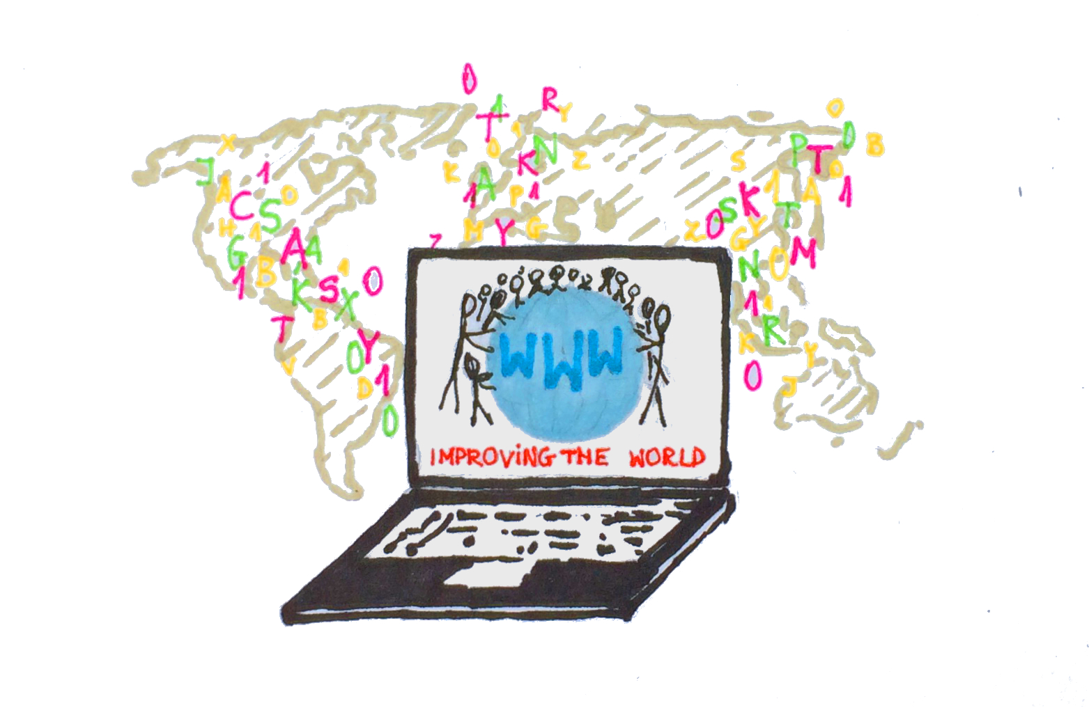 Online publications of independent artists circulate the whole world. The fifth estate. Internet resources.